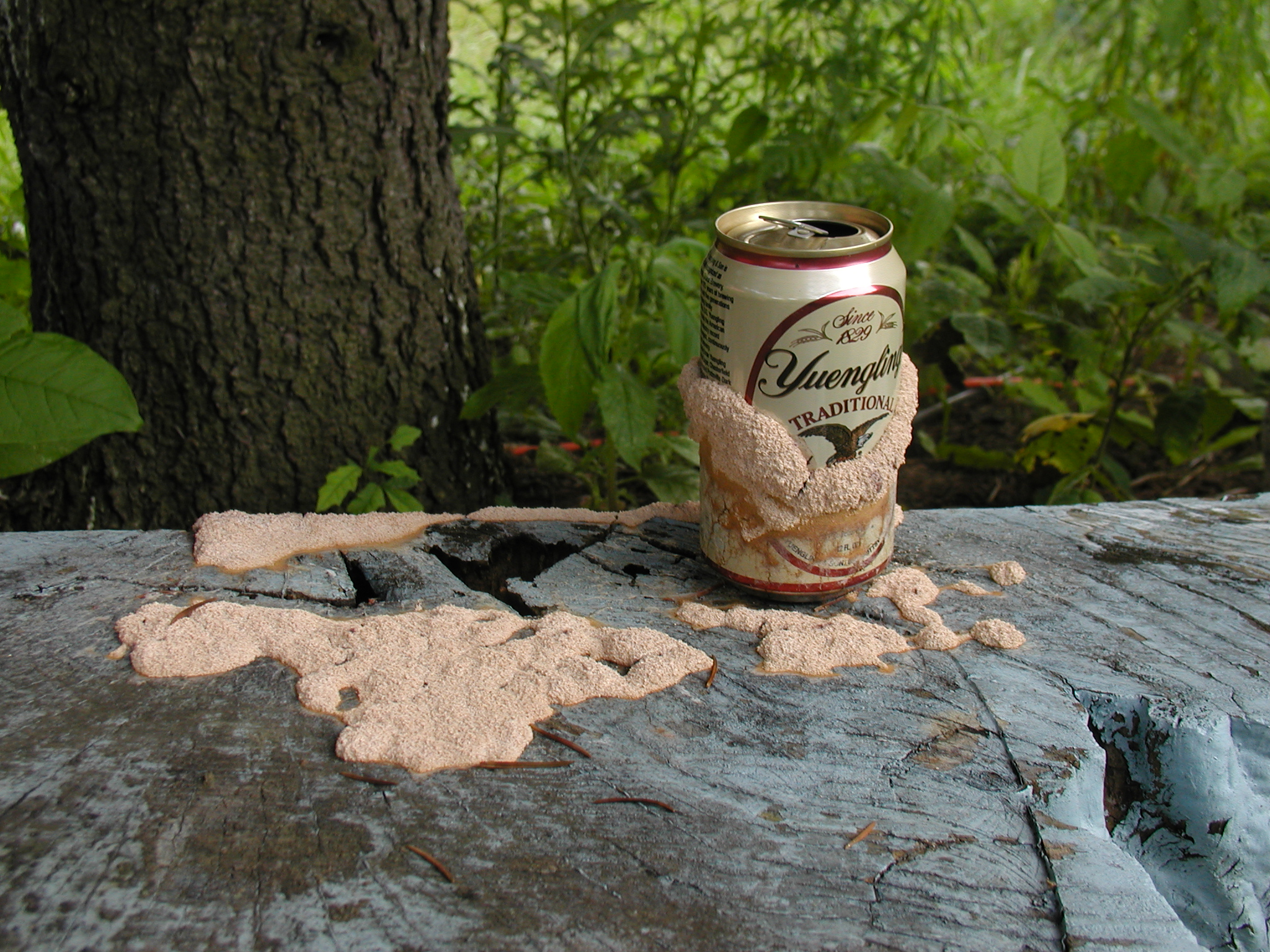 A Slime mold growing on a beer can